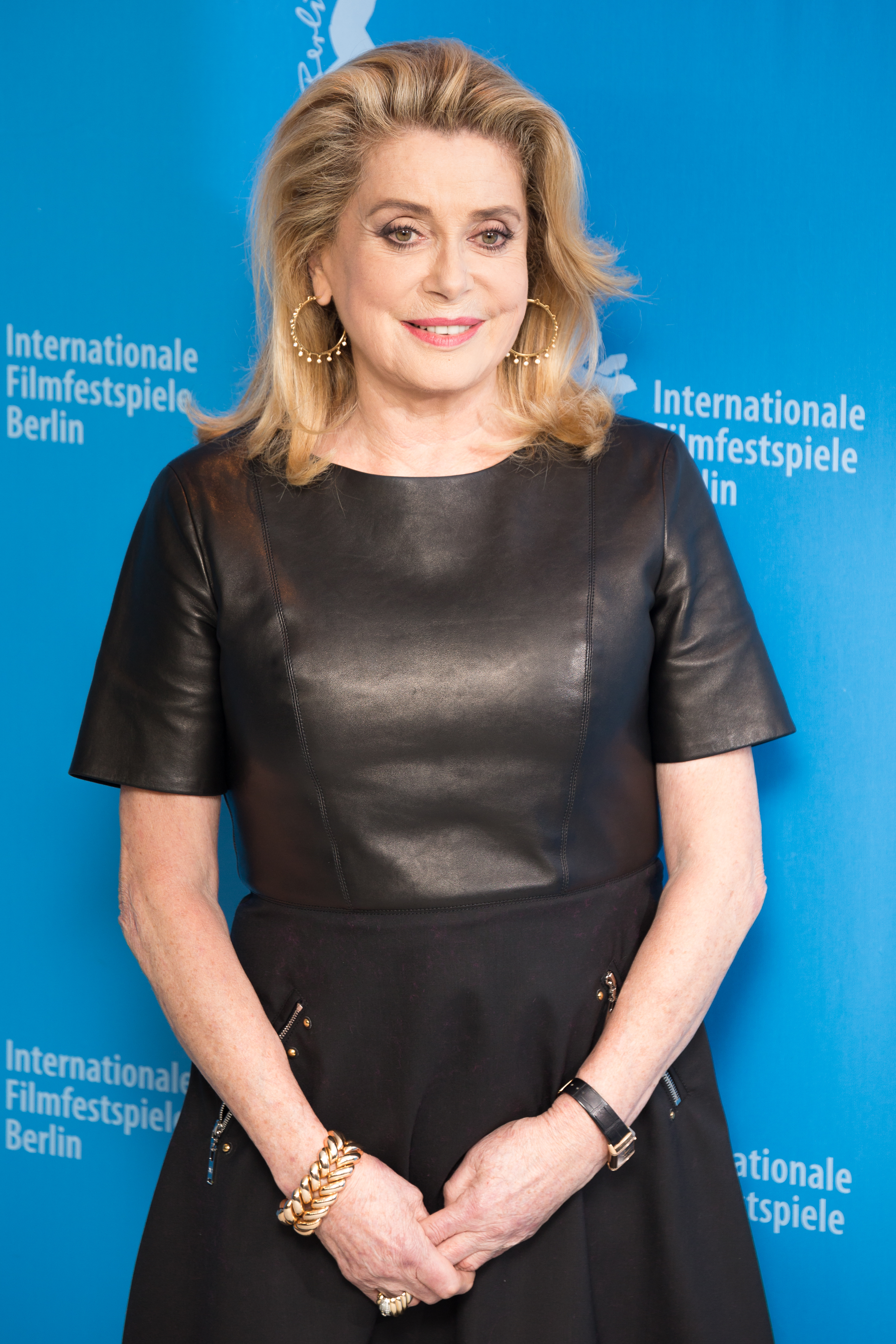 Catherine Deneuve at the presentation of Mid Wife during the Berlinale 2017